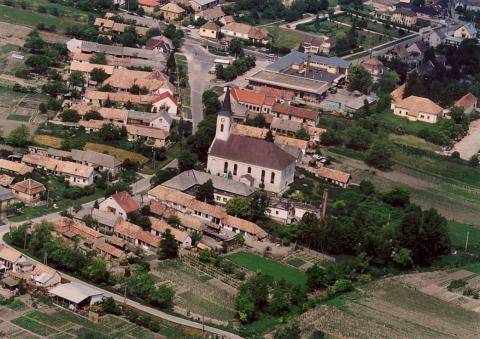 Kocs, Hungary, aerialphotography